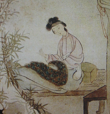 A scene from Dream of the Red Chamber. Public domain artwork by Xu Baozhuan (1810-1873).